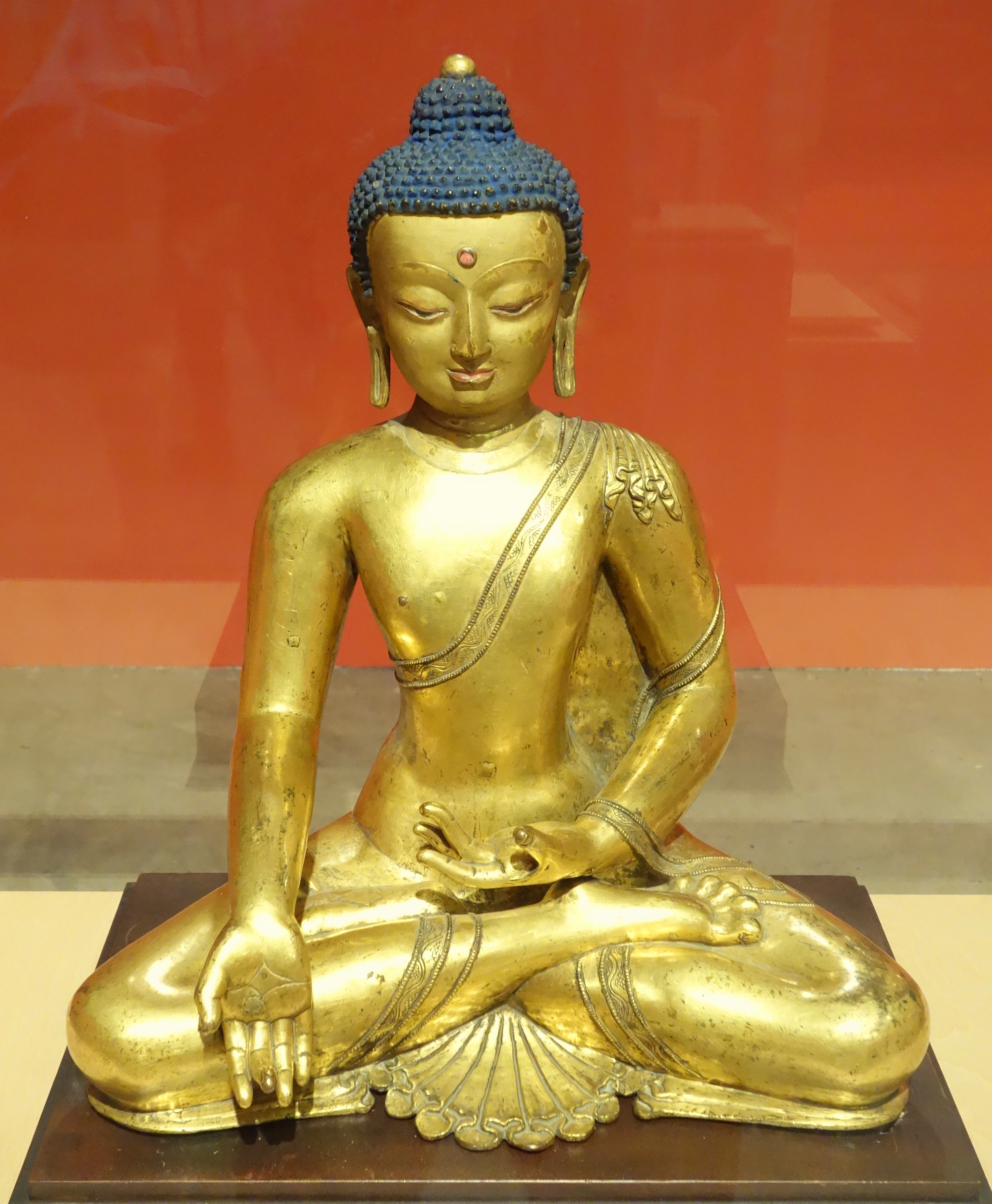 Exhibit in the Berkeley Art Museum and Pacific Film Archive, 2625 Durant Avenue #2250, Berkeley, California, USA. This museum is part of the University of California, Berkeley. This artwork is in the public domain because the artist died more than 70 years ago. Photography of this exhibit was permitted without restriction.